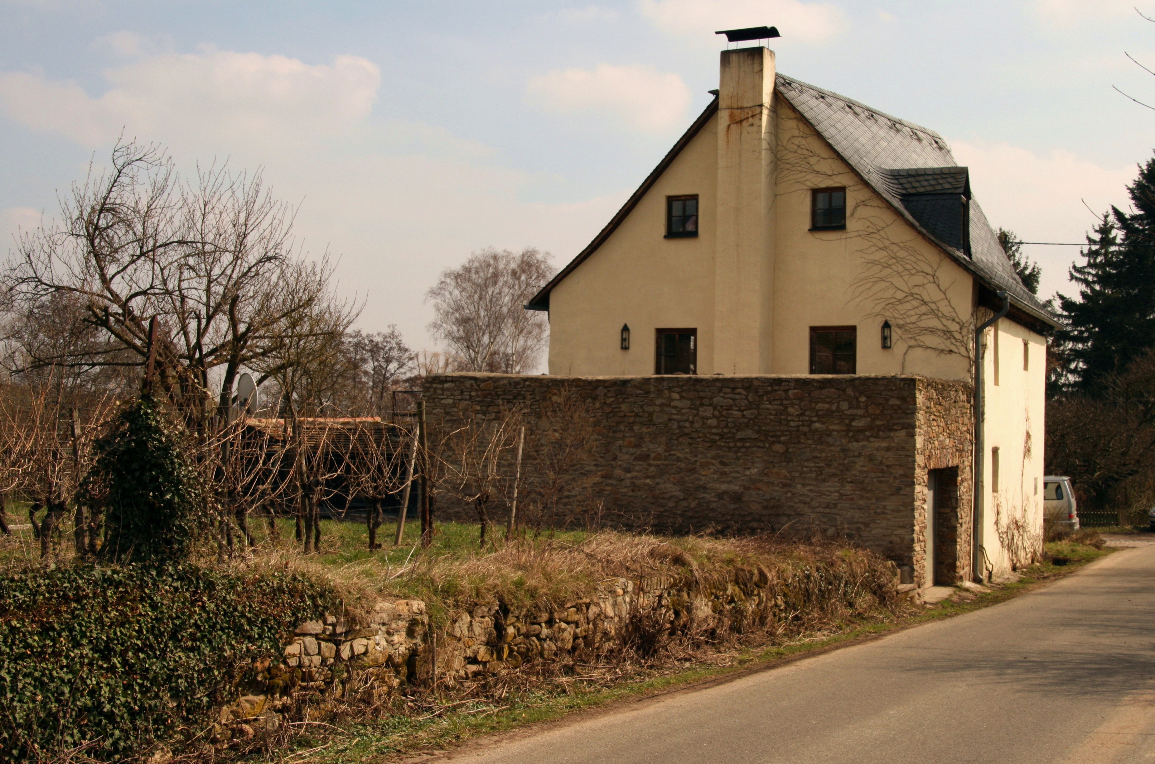 Former Cistercian monastery Kloster Gottesthal: Gatehouse from 1697. Oestrich-Winkel, Hesse, Germany.